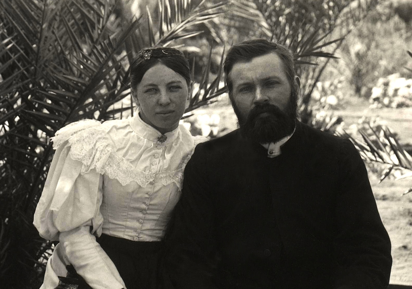 Carl & Frieda Strehlow by Francis James Gillen.